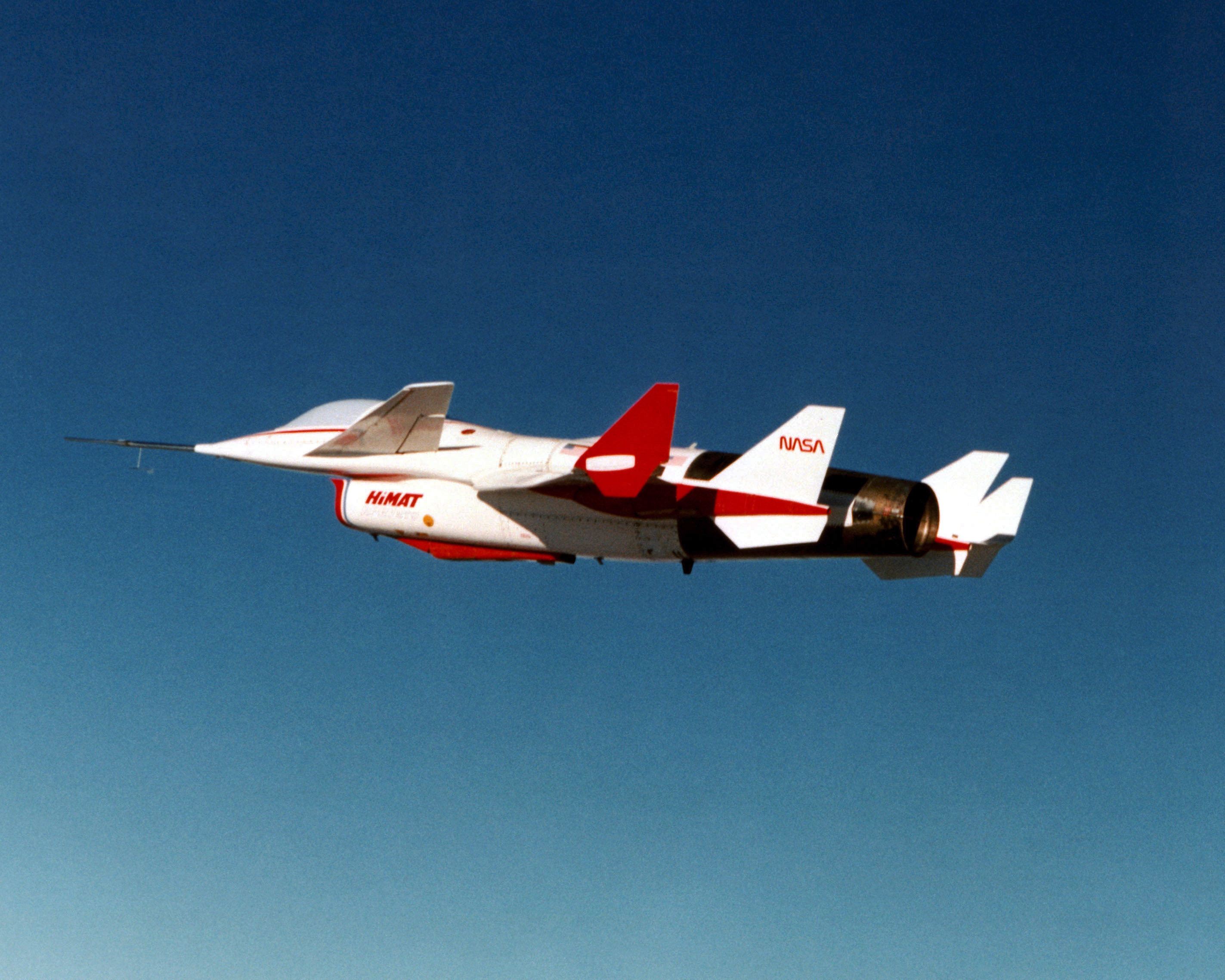 A left side view of a highly maneuverable aircraft technology (HIMAT) flight vehicle banking to the left over a test range. Location: EDWARDS AIR FORCE BASE, CALIFORNIA (CA) UNITED STATES OF AMERICA (USA)